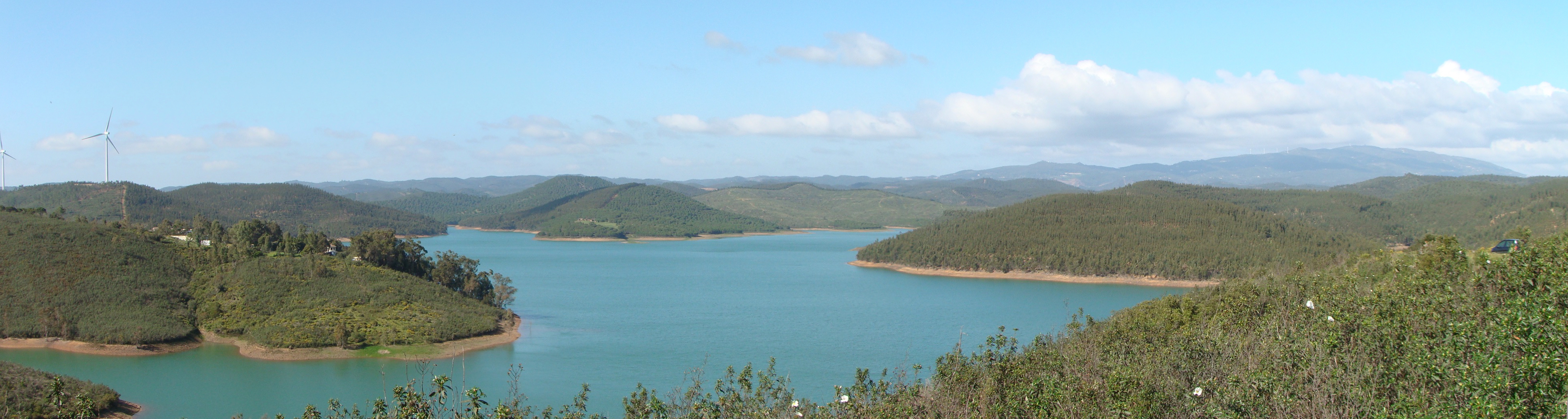 Bravura Dam